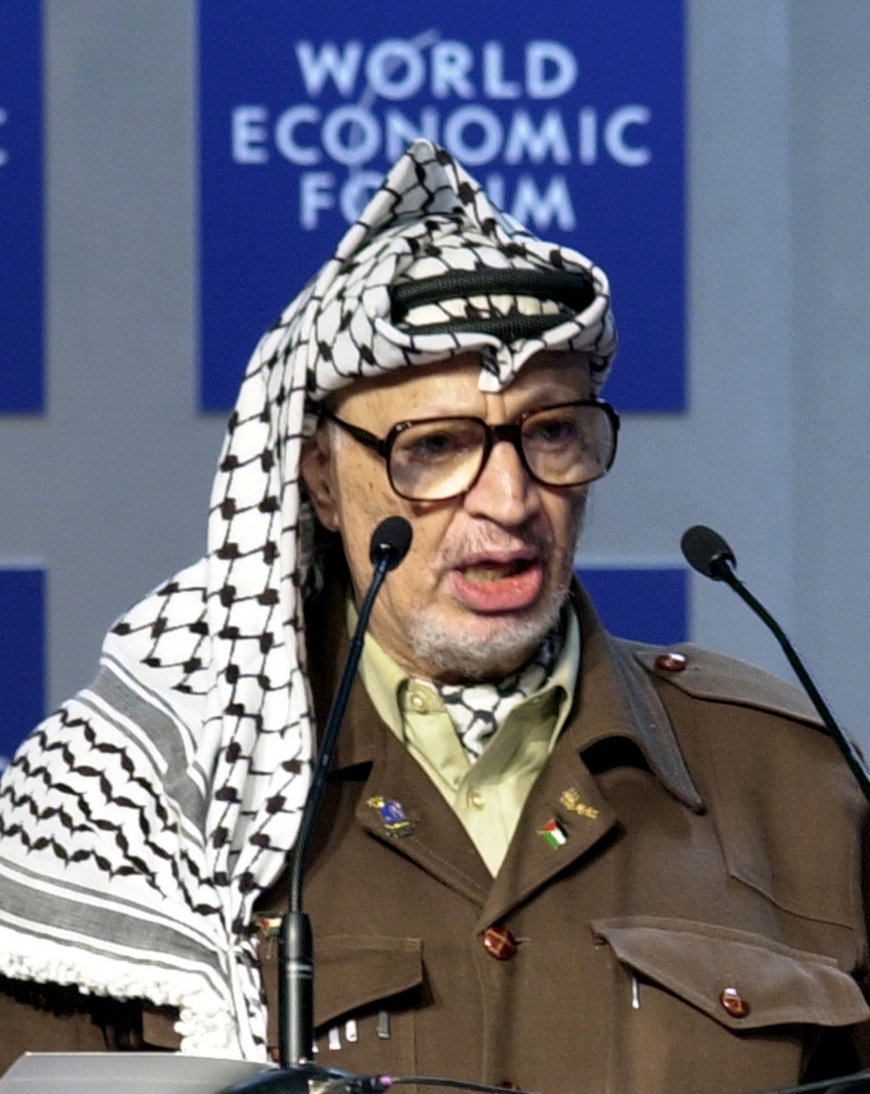 Yasser Arafat at 'From Peacemaking to Peacebuilding' at the Annual Meeting 2001 of the World Economic Forum (pleas avoid use it in an abusive manner)